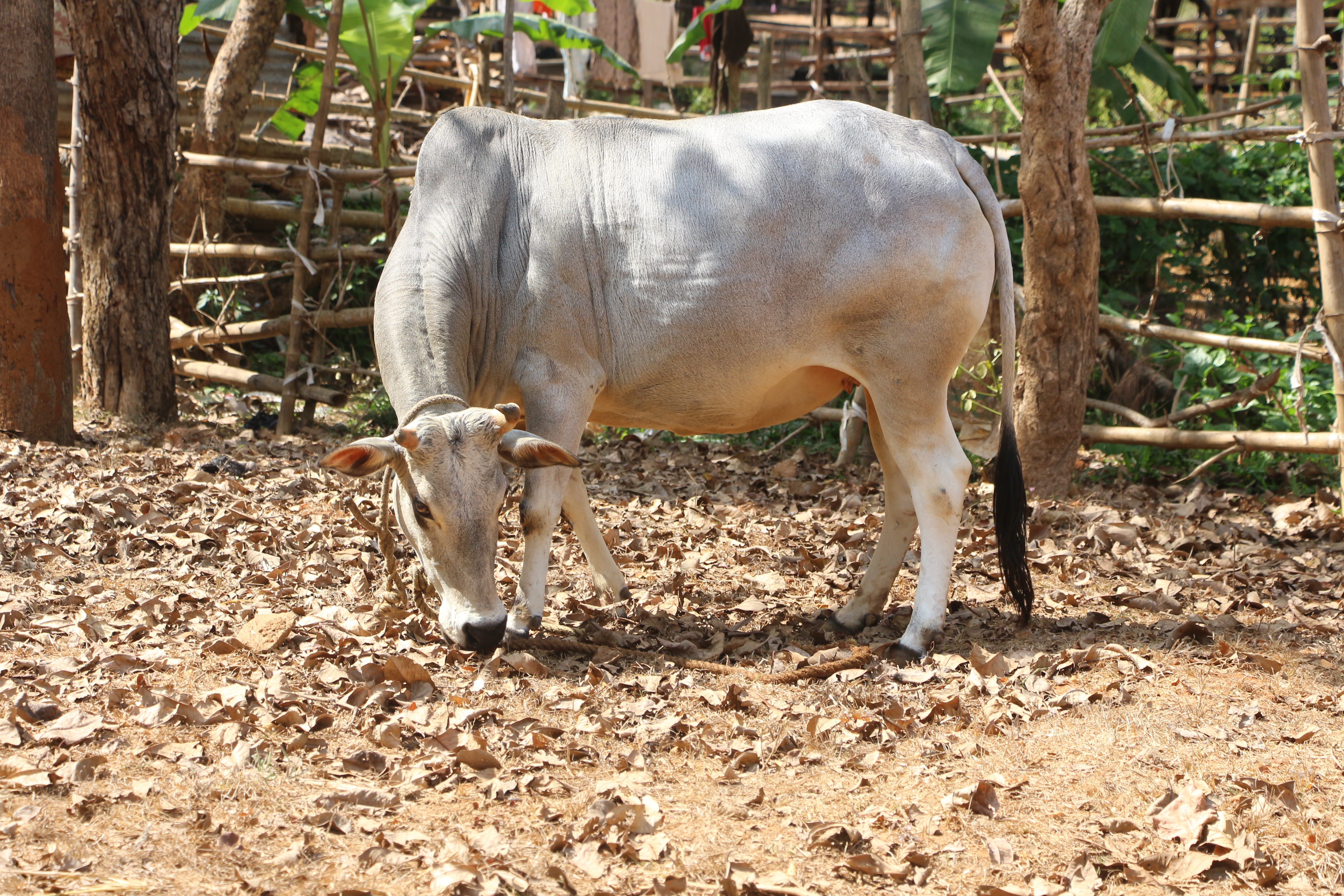 Indian cow breed Kenkatha ಕನ್ನಡ: ಭಾರತೀಯ ಗೋತಳಿ ಕೆಂಕಾಥ